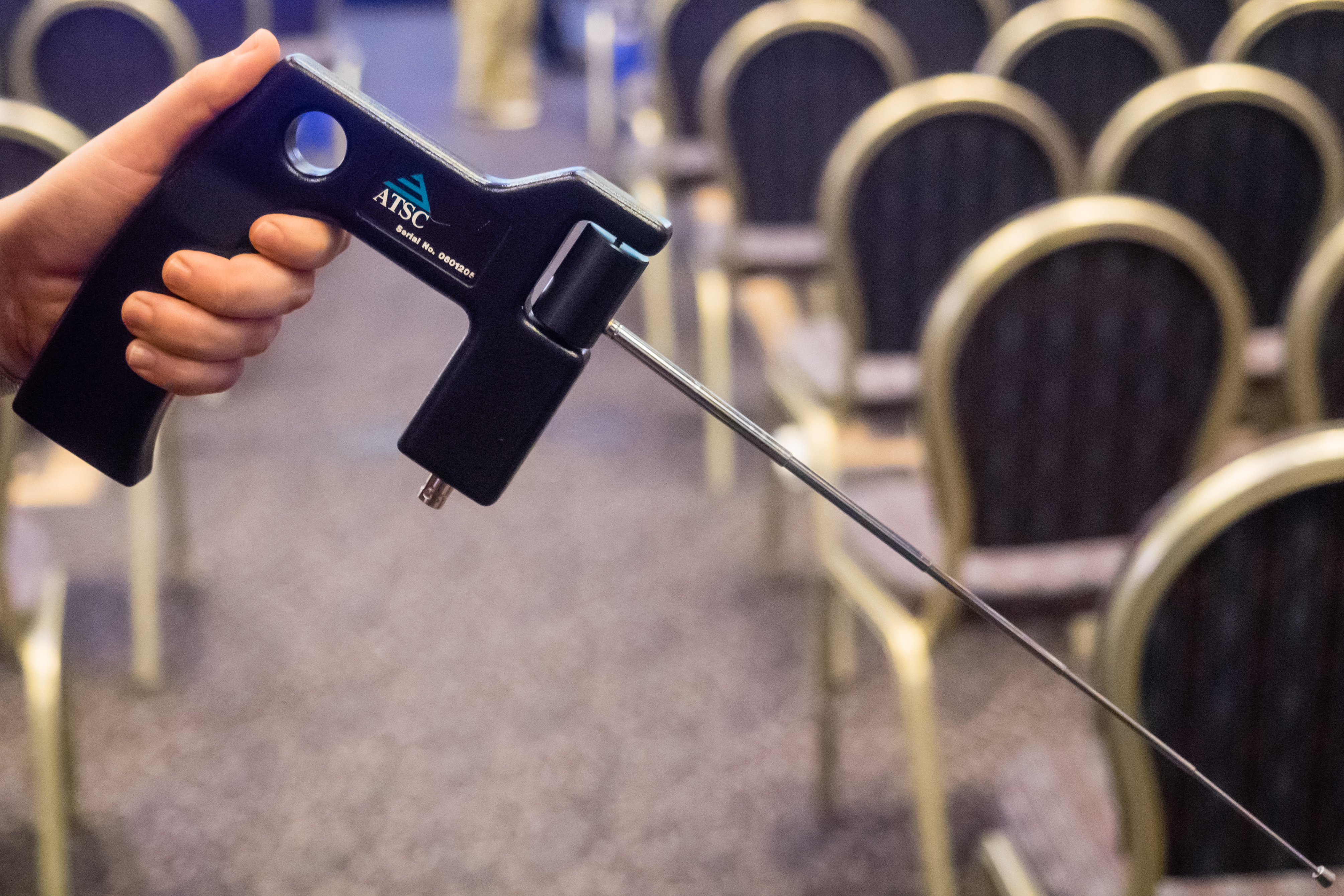 Photo of an ADE 651 taken at QEDcon 2016 at the Mercure Manchester Piccadilly Hotel, after a talk by Meirion Jones.